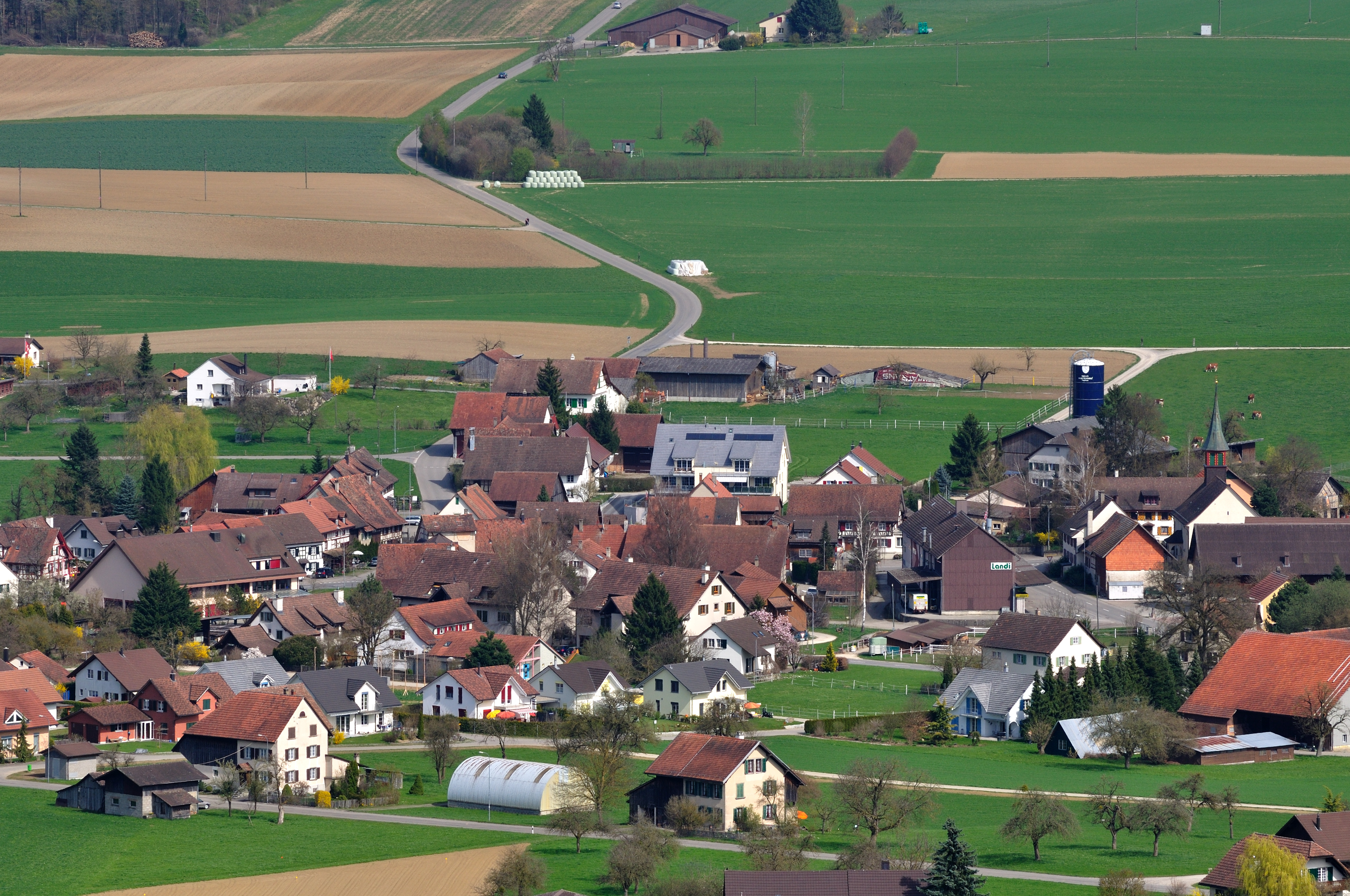 Switzerland, Canton of Zürich, views from the lookout tower in Wildensbuch